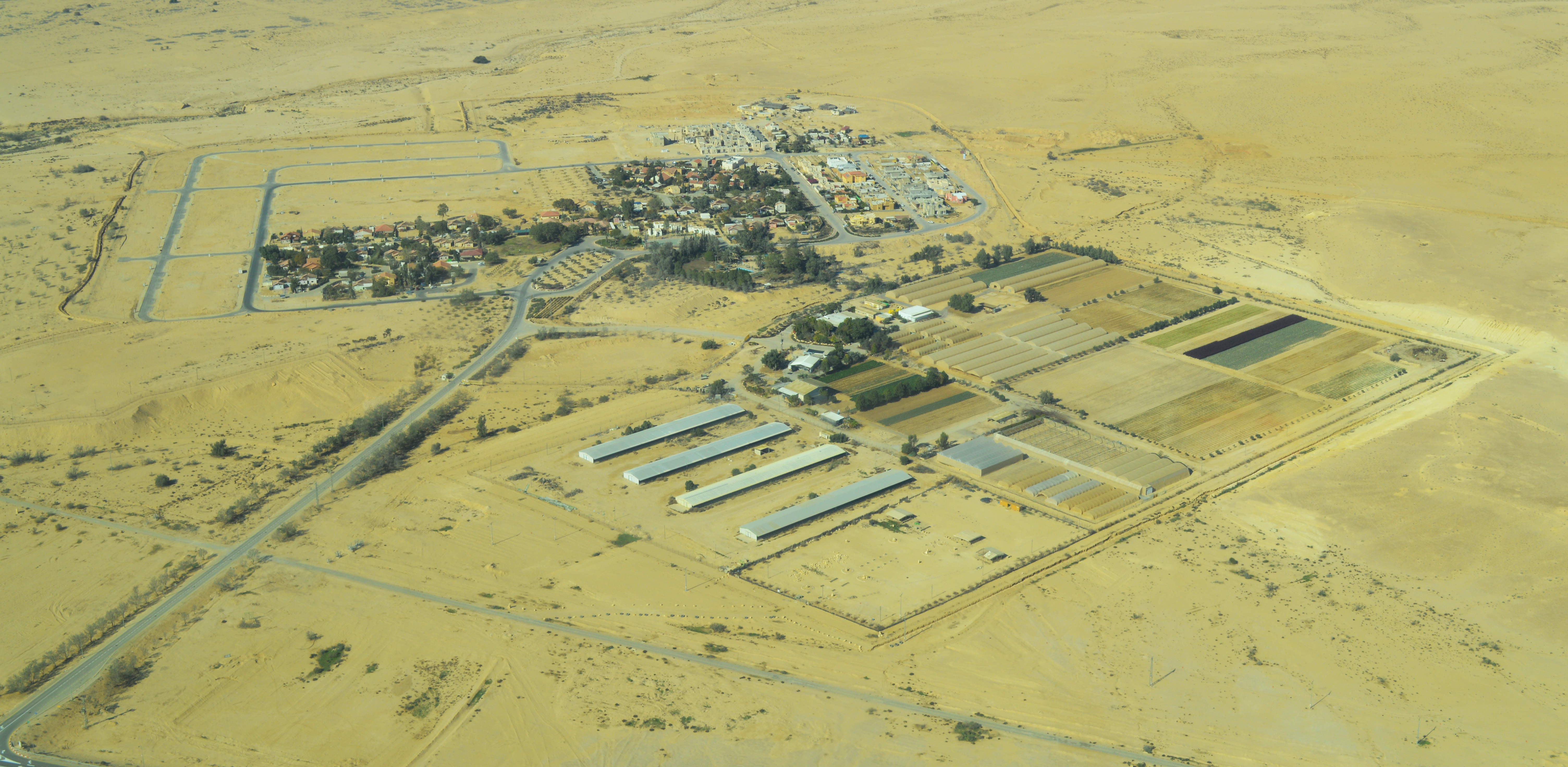 Ashalim Aerial View